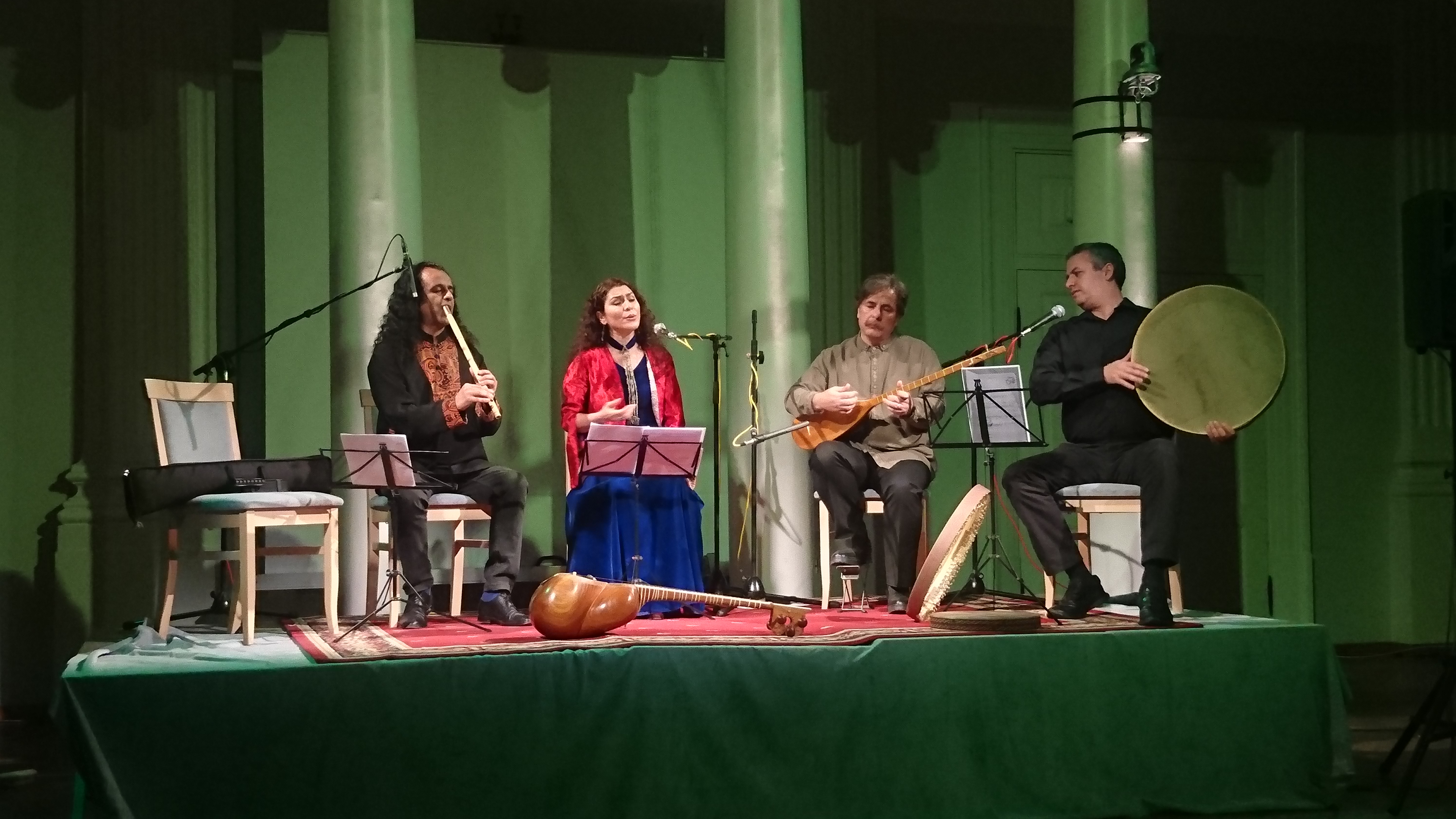 Iranian ensemble Gian Trio and singer Raheleh Barzegari on a concert in the main building of the University of Tartu, Estonia, 13 October 2018, during the Orient and Occident music festival. From left to right: Dariush Rasouli, Raheleh Barzegari, Mohammad Zolnouri, and Hamidreza Ojaghi.